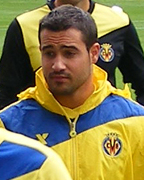 Players of Villarreal CF coming off the pitch at JJB Stadium in August 2011.